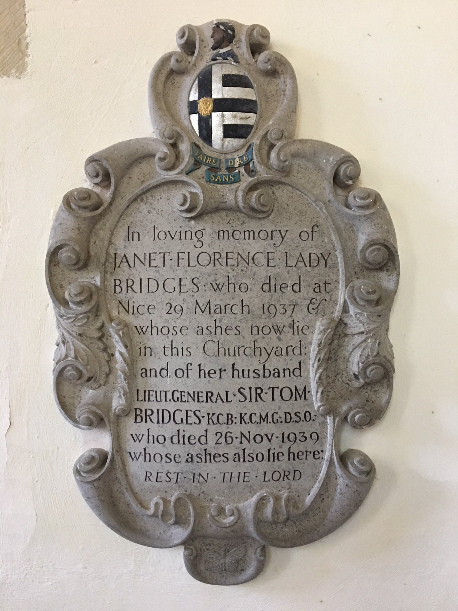 Memorial to Tom Bridges in St Nicholas-at-Wade, Kent